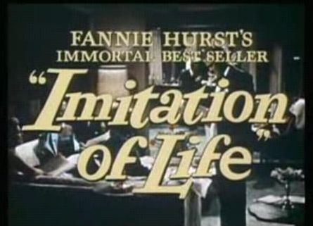 Screenshot from the film Imitation of Life